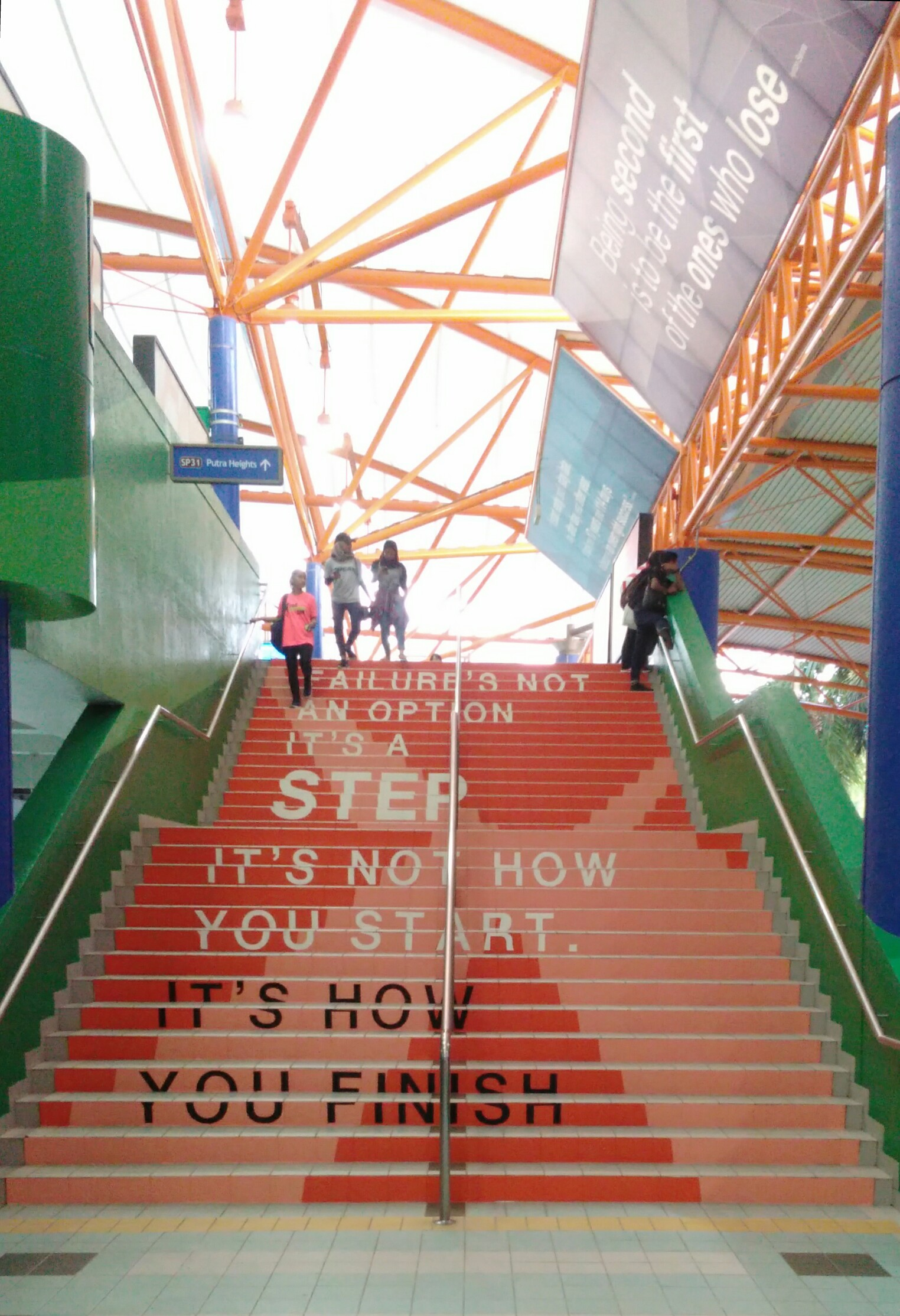 The staircase and the roof are decorated with quotes.